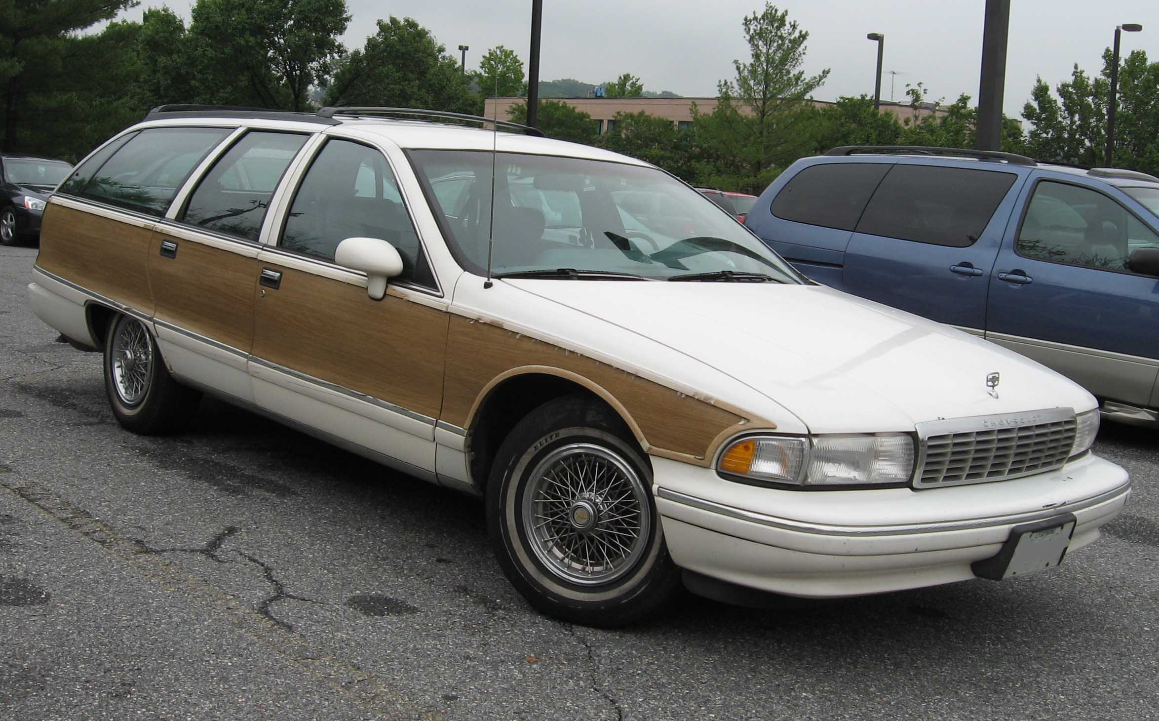 1993 Chevrolet Caprice photographed in USA.